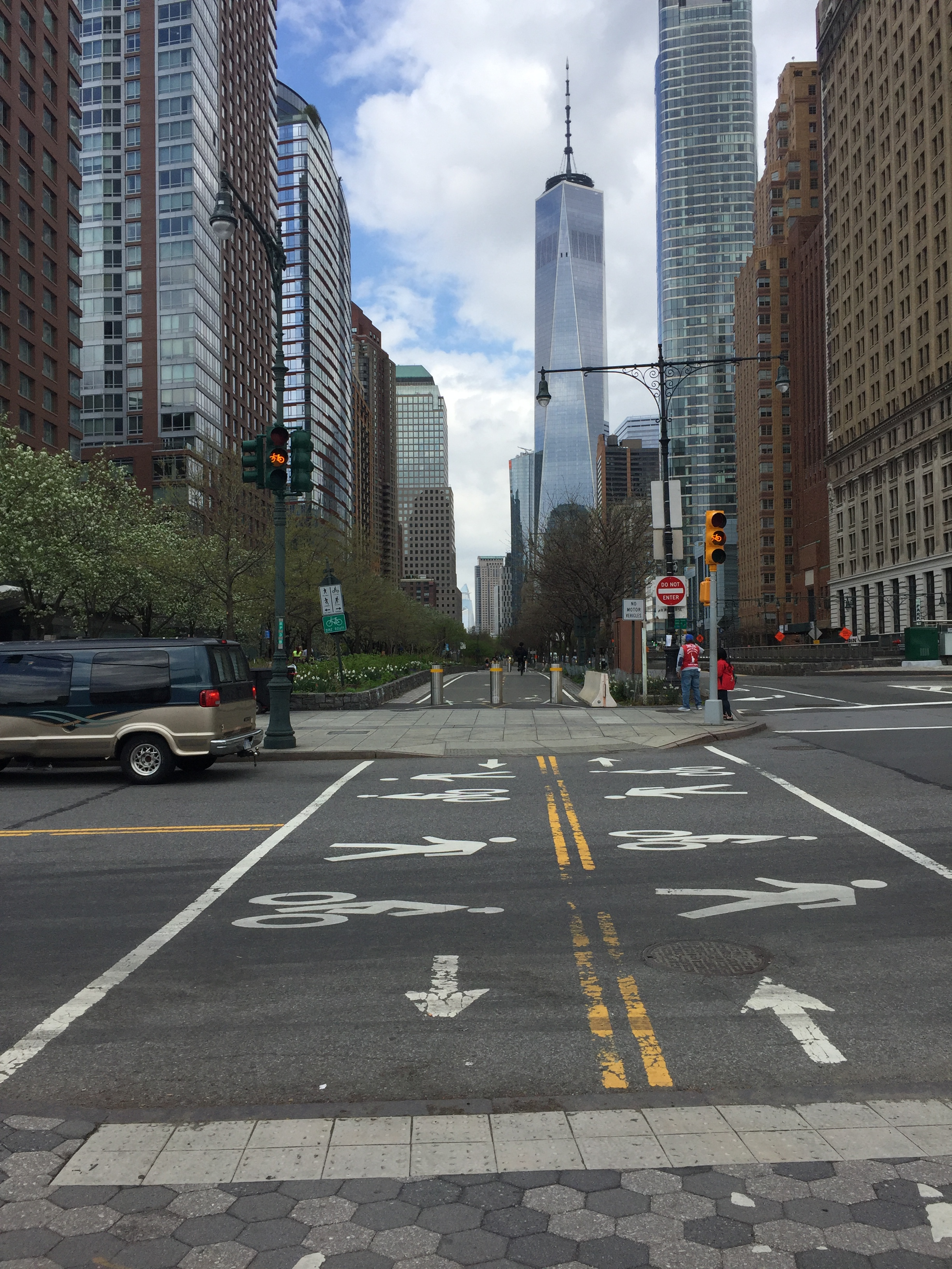 The Hudson River Greenway goes up the west side of Manhattan, and represents the southernmost part of the Empire State Trail.